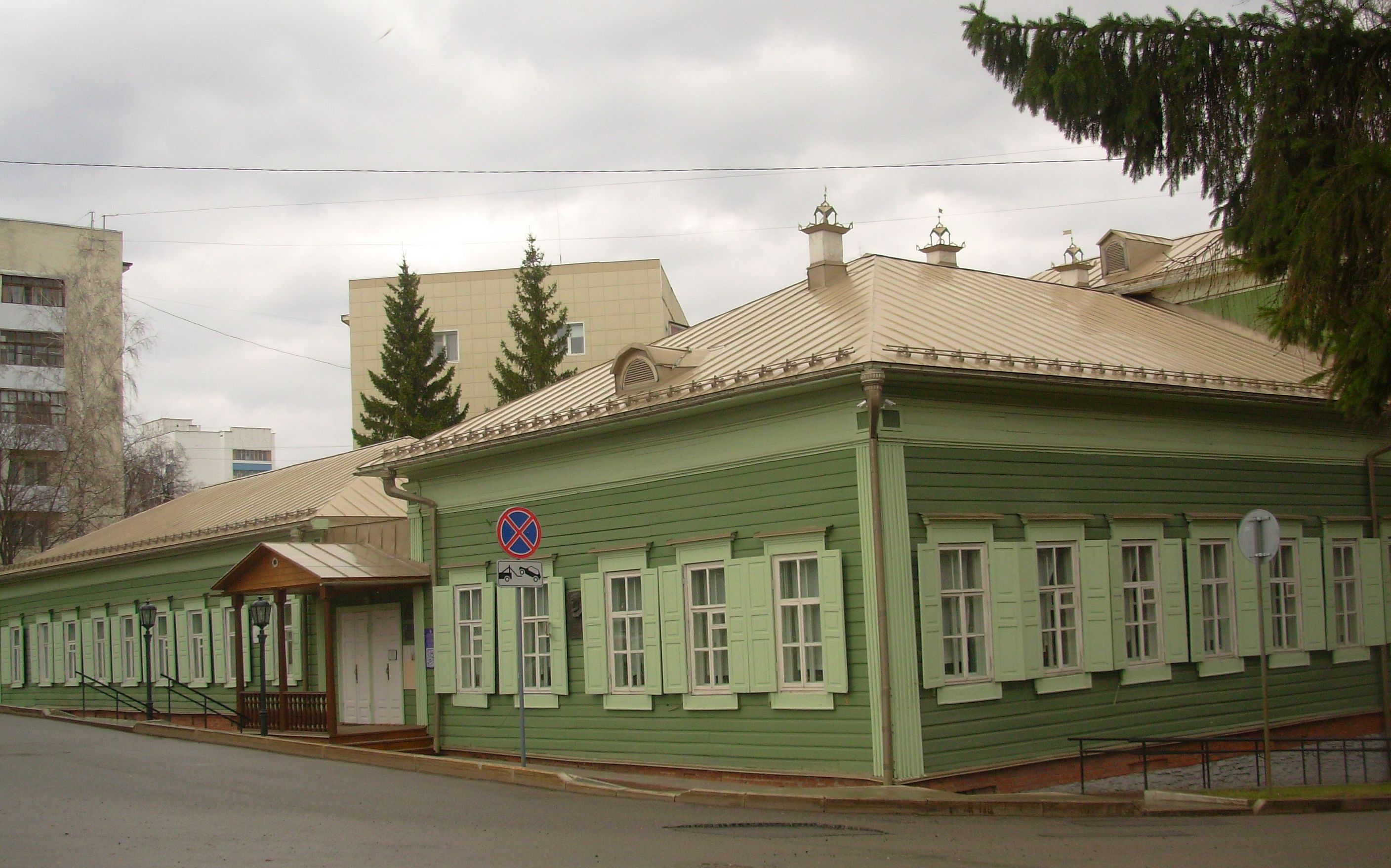 Музей Аксакова в Уфе